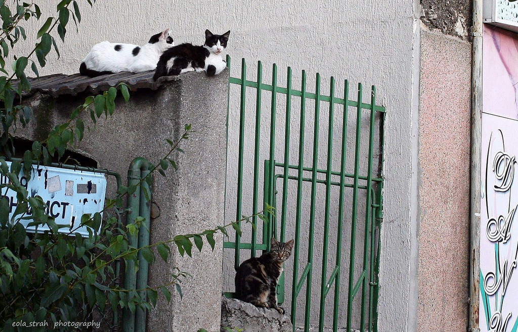 Stray cats in Sofia, Bulgaria